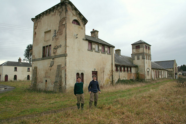 The historical Blairs Home Farm on Altyre Estate and two very proud supporters.